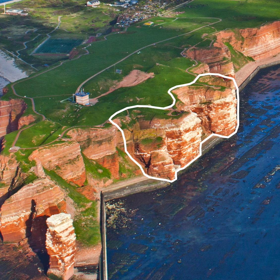 Aerial view of the island Heligoland: the white border marks the "Lummenfelsen der Insel Helgoland" nature reserve; at the bottom left is the "Lange Anna" stack.